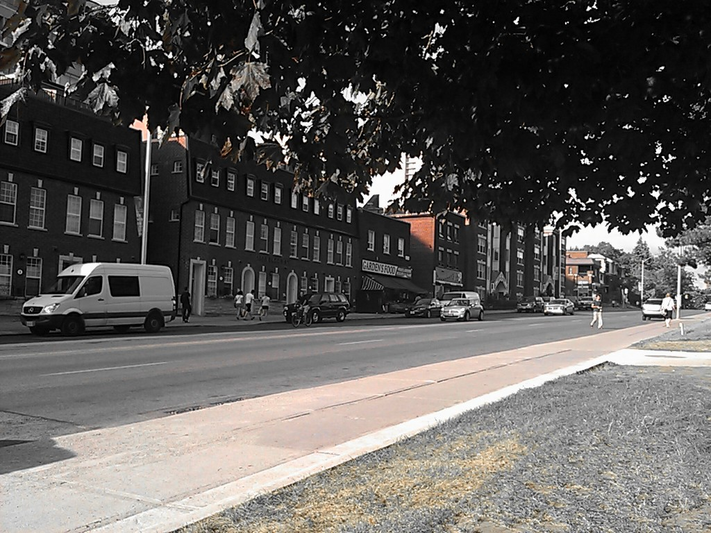 High Park-Swansea, Toronto, ON, Canada